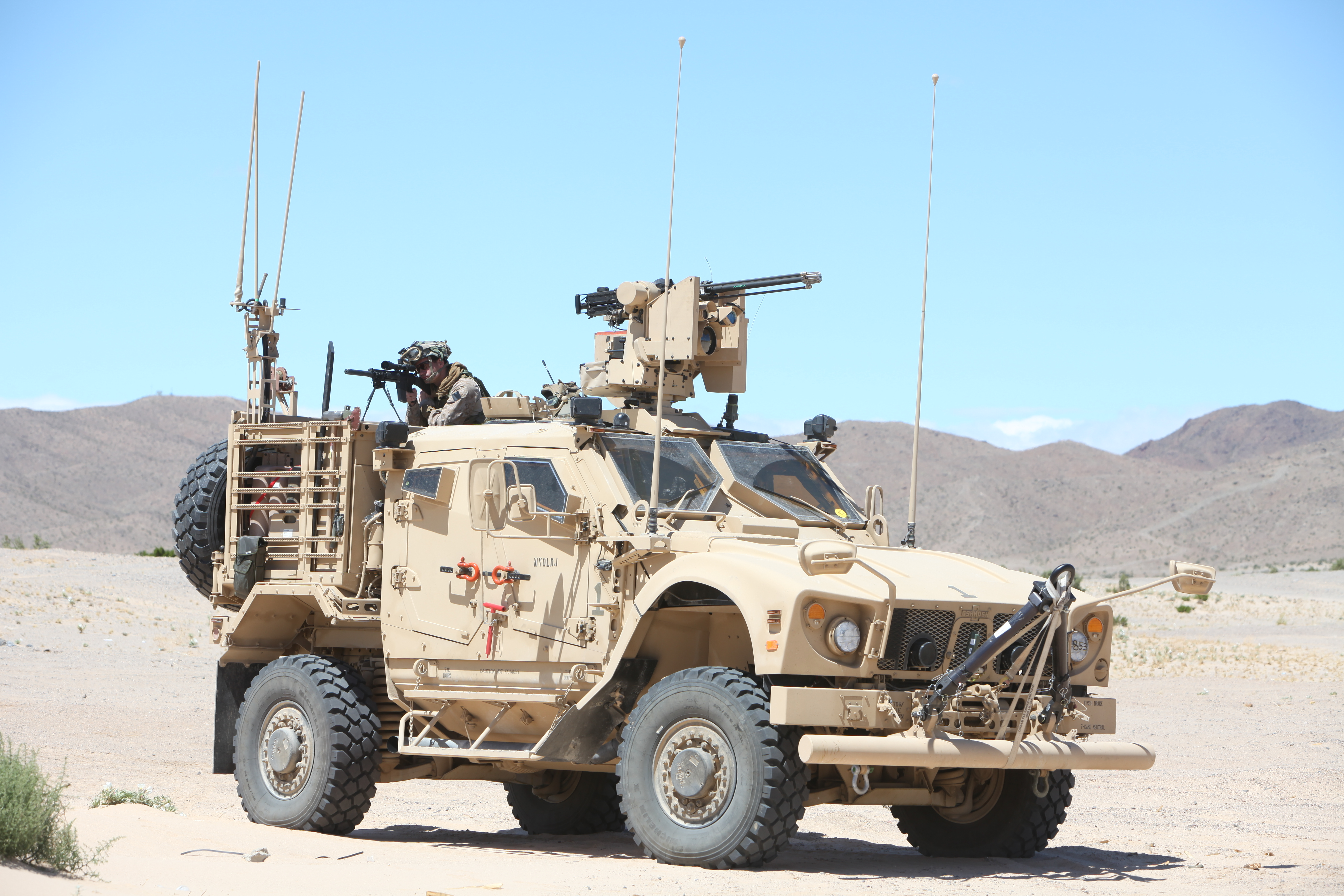 A Marine sniper with U.S. Marine Corps Forces, Special Operations Command, provides security from the back of an M-ATV during a medical engagement as part of a pre-deployment exercise at the National Training Center, Fort Irwin, Calif., May 15, 2011. The three-week exercise is designed to prepare MARSOC Marines for deployment to combat operations in Afghanistan by immersing them in an environment as realistic and comprehensive as possible.